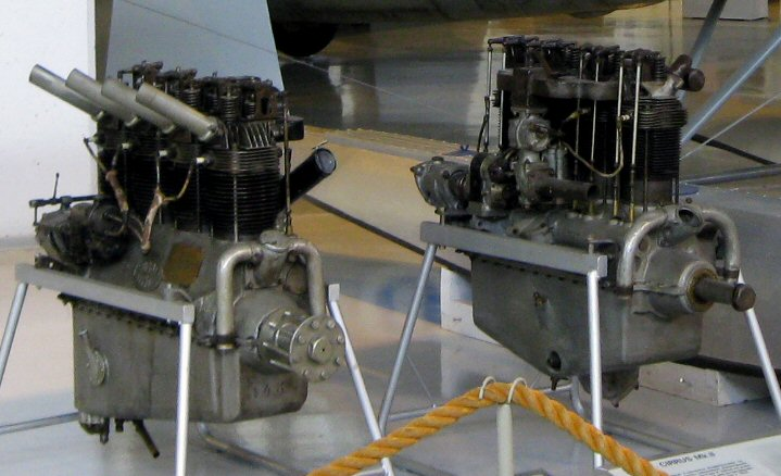 Cirrus Hermes I engine (left) and Cirrus III engine (right) in Aviation Museum of Central Finland.